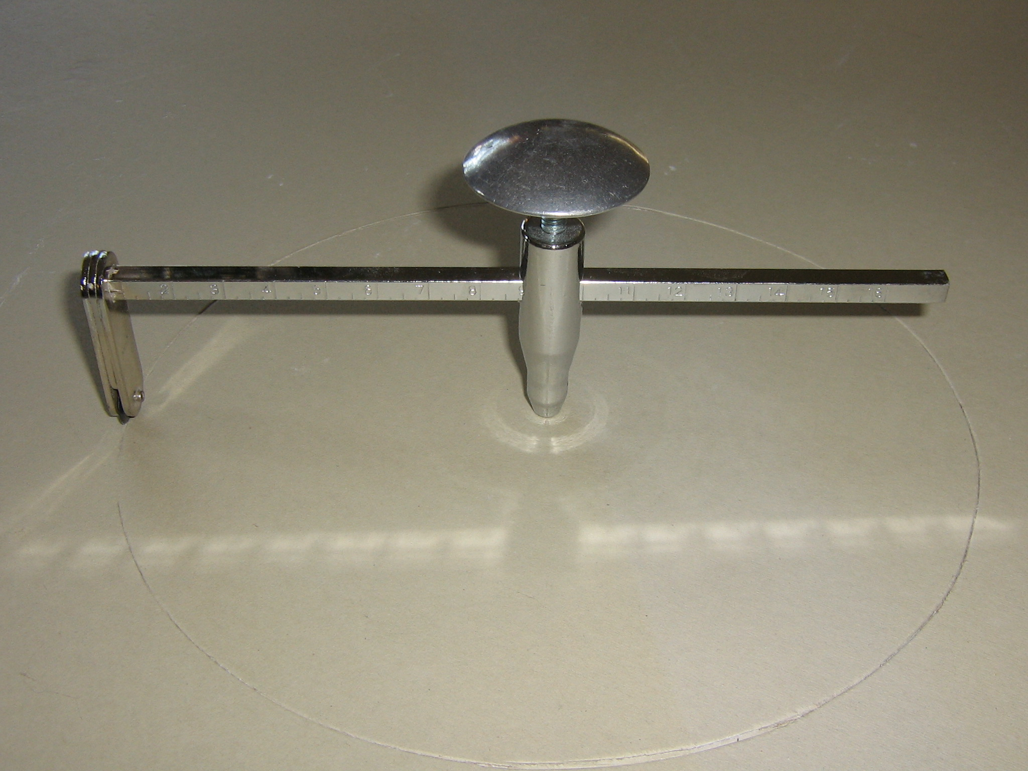 Photographer: Johnalden photo of a circle cutter